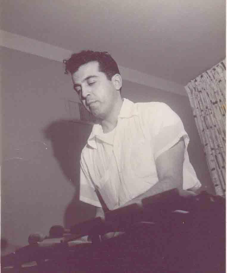 Roland was about 30 years old when this publicity photo was taken